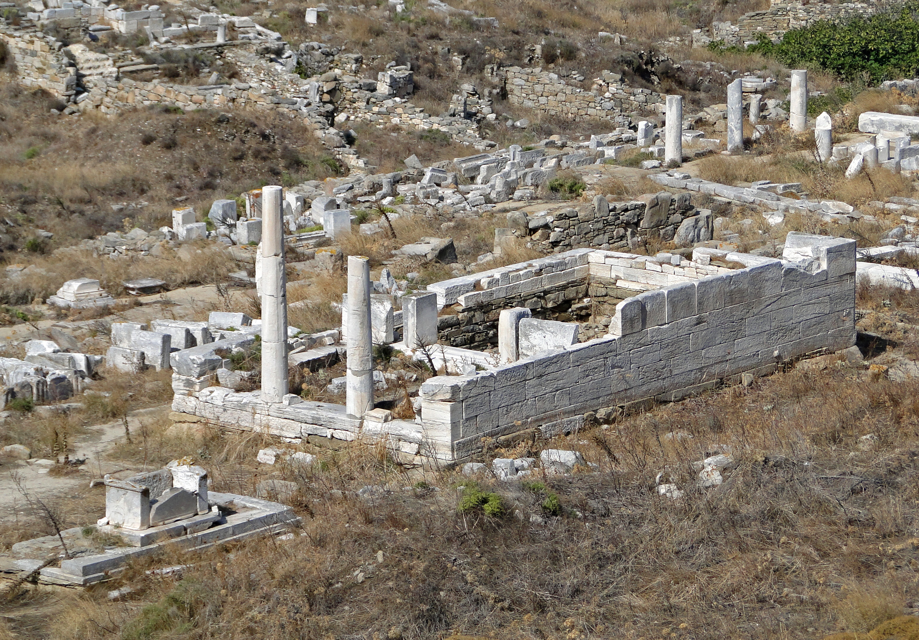 Heraion (temple of Hera) in Delos, Greece